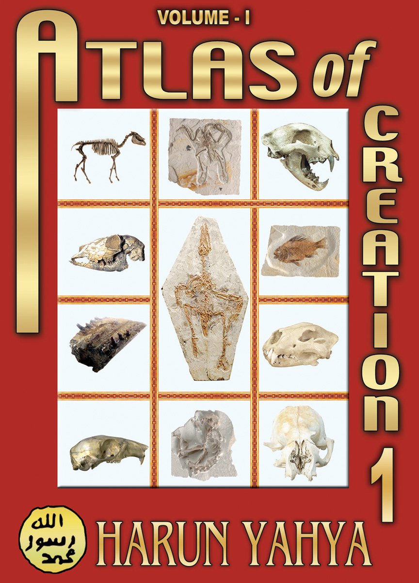 Cover of "The Atlas of Creation" by Harun Yahya, volume 1 (Global Publishing, 2006).